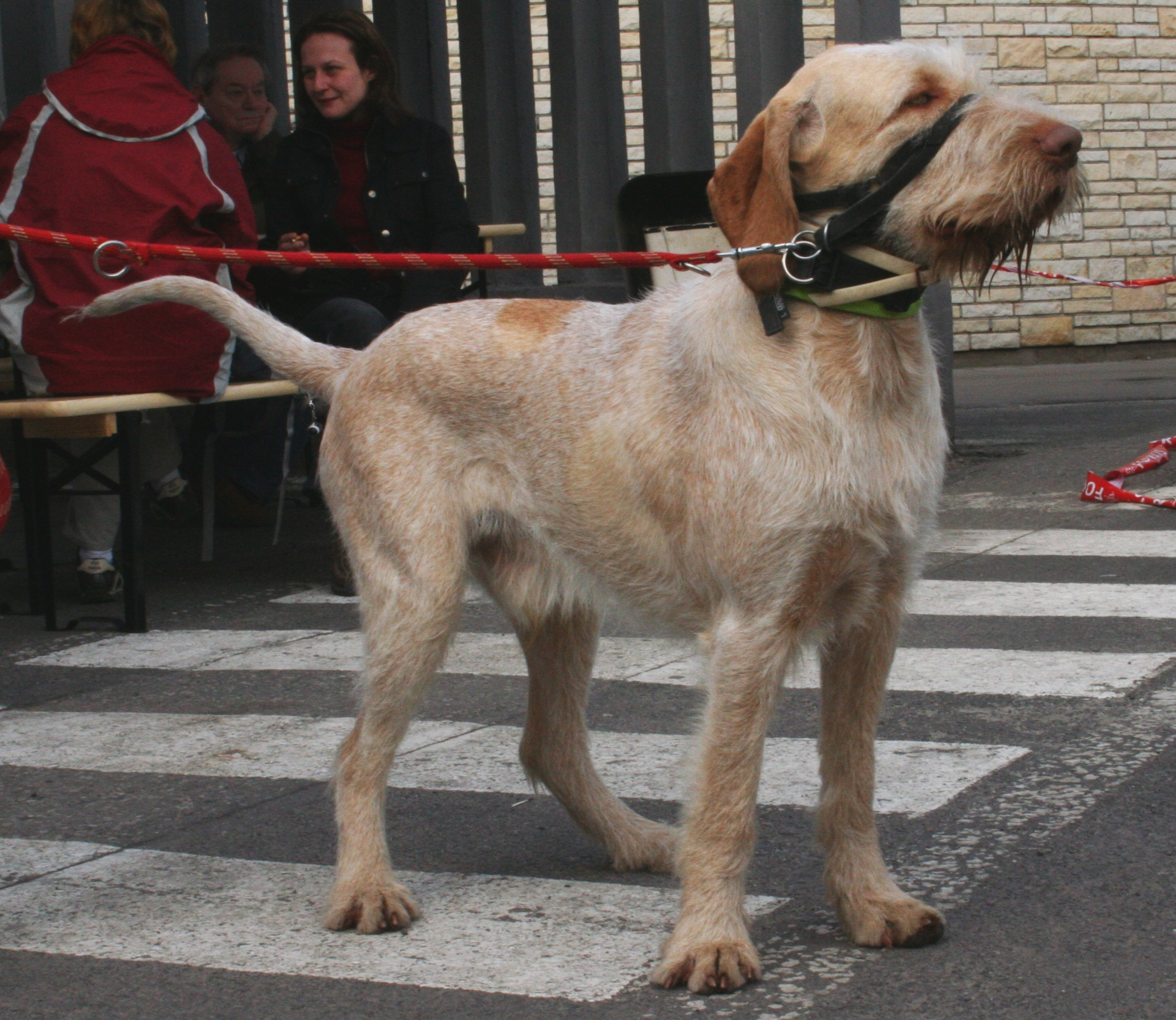 Spinone Italiano during International show of dogs in Katowice - Spodek, Poland